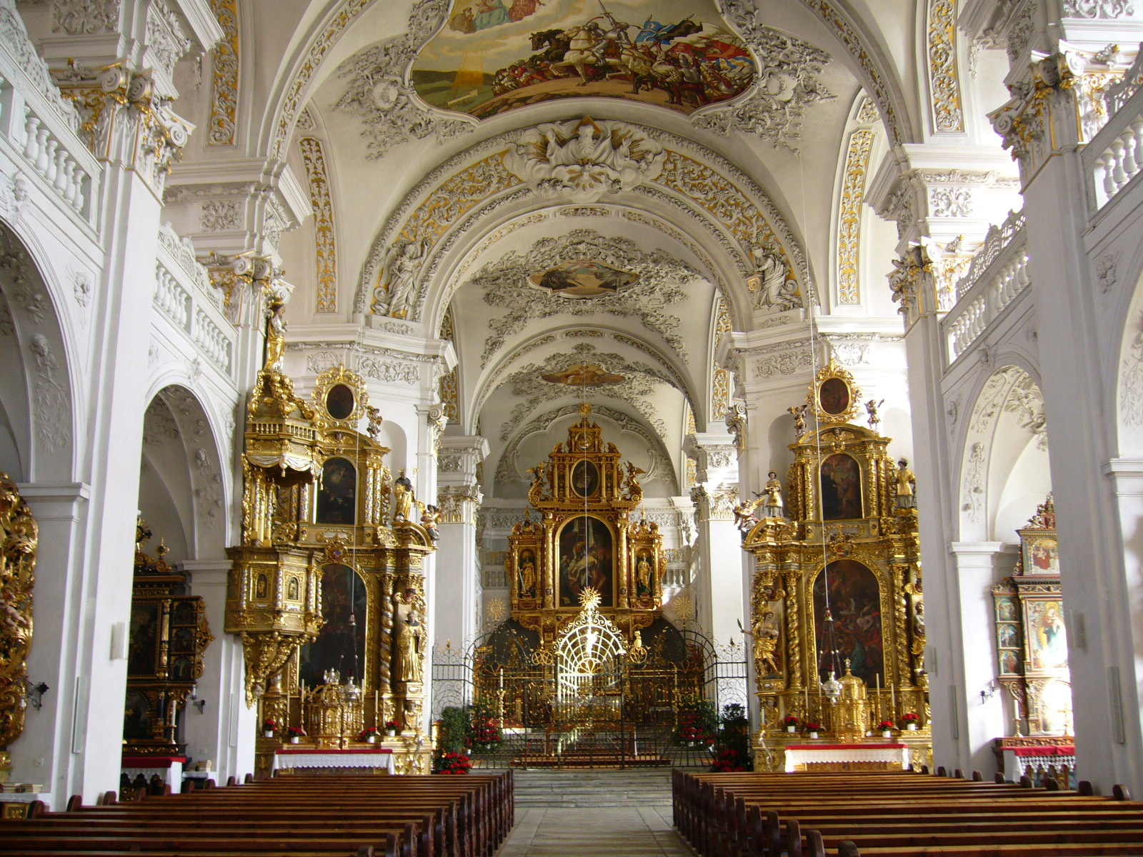 Church of the monastery Disentis. Picture taken by Peter Berger, July 31, 2006.